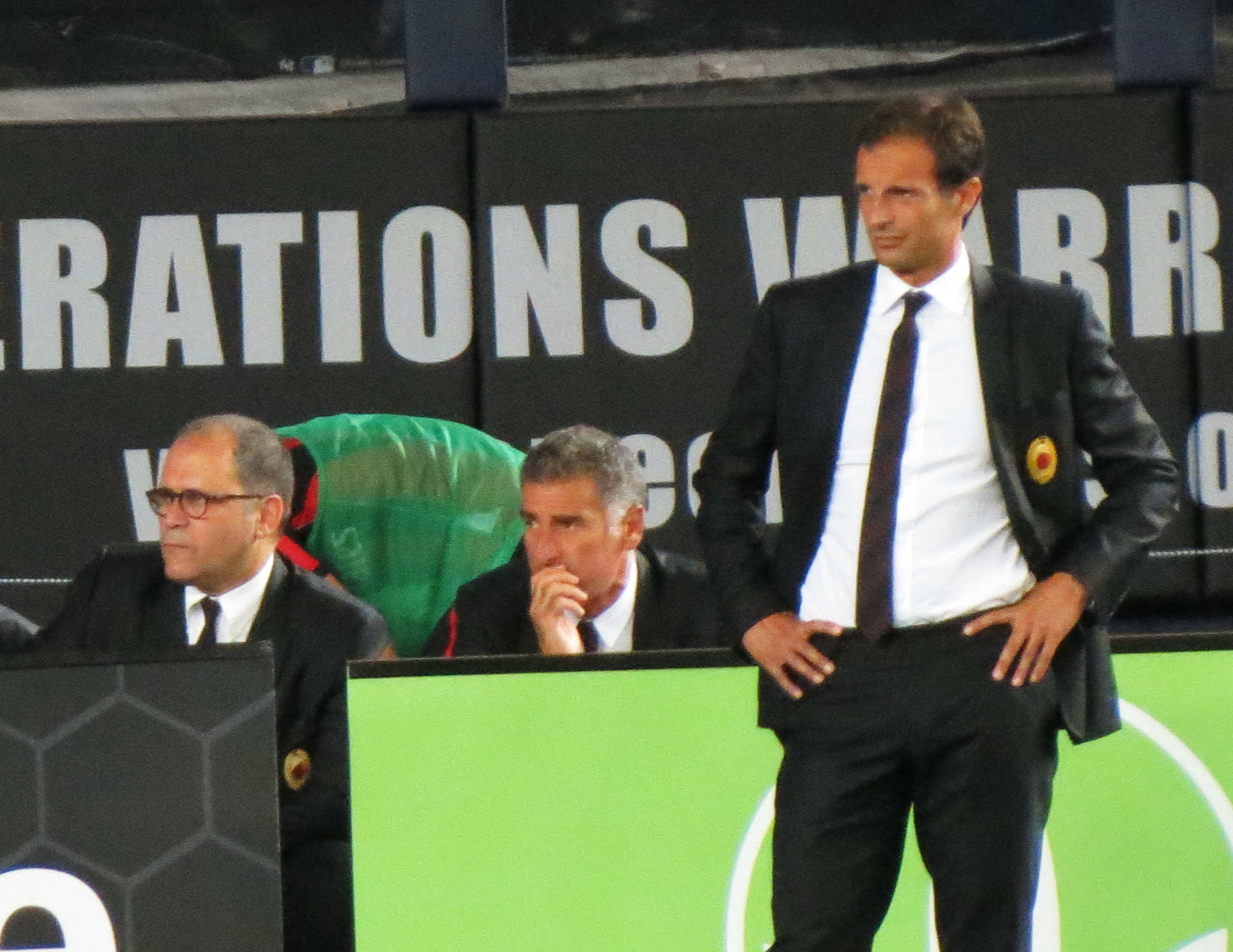 Massimiliano Allegri, coaching AC Milan against Real Madrid in August 2012.